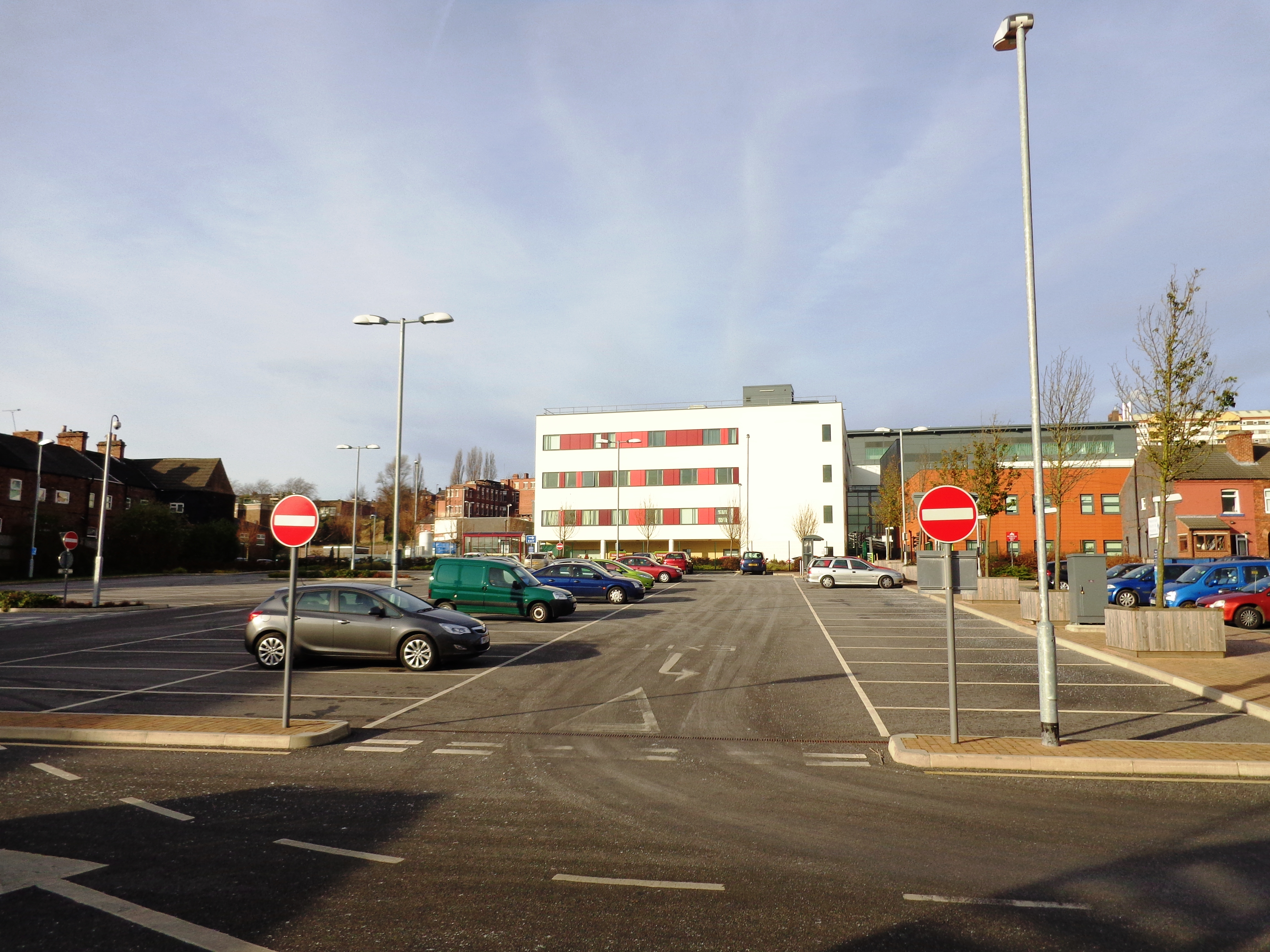 Pontefract general Infirmary Main Block